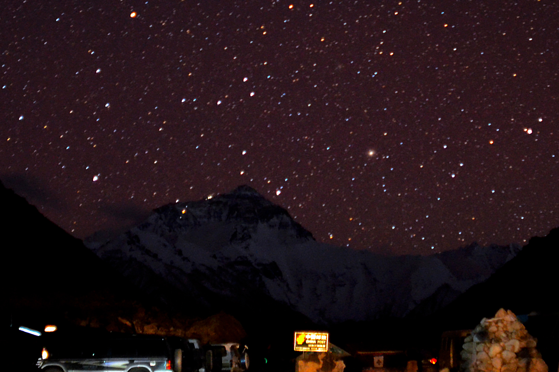 Starry Night at Mount Everest. Camps are visible on the northeast ridge at Camp IV. Other lights visible almost exactly at the "First Step" along the ridge in this photo - presumably a summit push in progress. Vantage point is from the north base camp / tourist camp area in Tibet looking due south. Also visible is the Omega Centauri star cluster. Google Map location of Tourist base camp. Camera and settings: Nikon d5100, 24mm lens, 30 seconds, iso4000